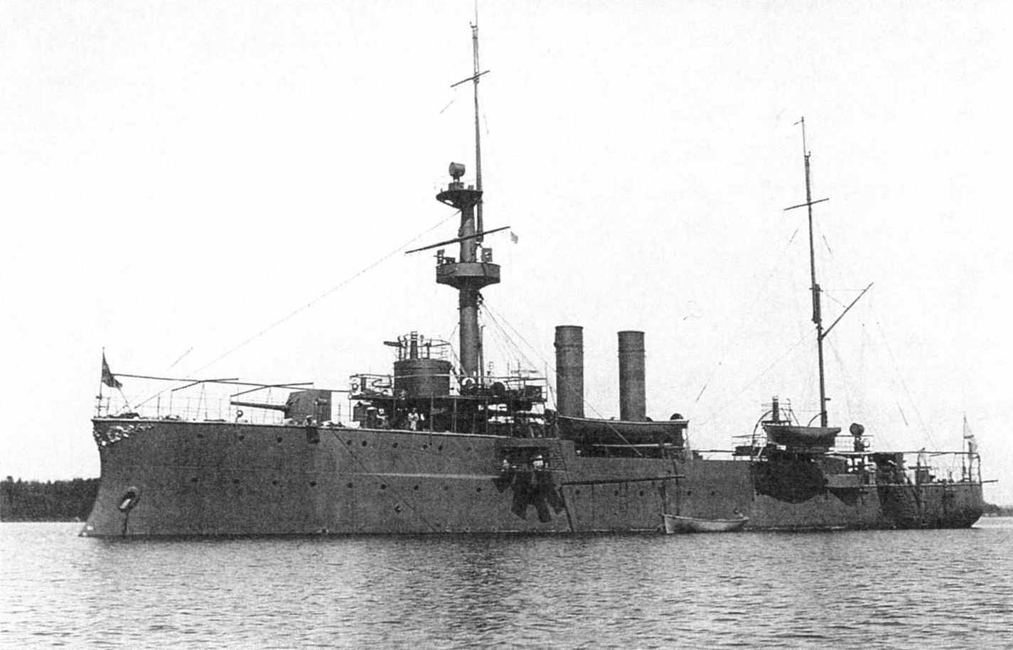 Imperial Russian gunboat Giliak.